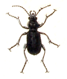 Blethisa multipunctata, from Calwer's Käferbuch, Table 1, Picture 8. Taxonomy was updated to 2008, using mostly the sites Fauna Europaea and BioLib. Please contact Sarefo if the determination is wrong!